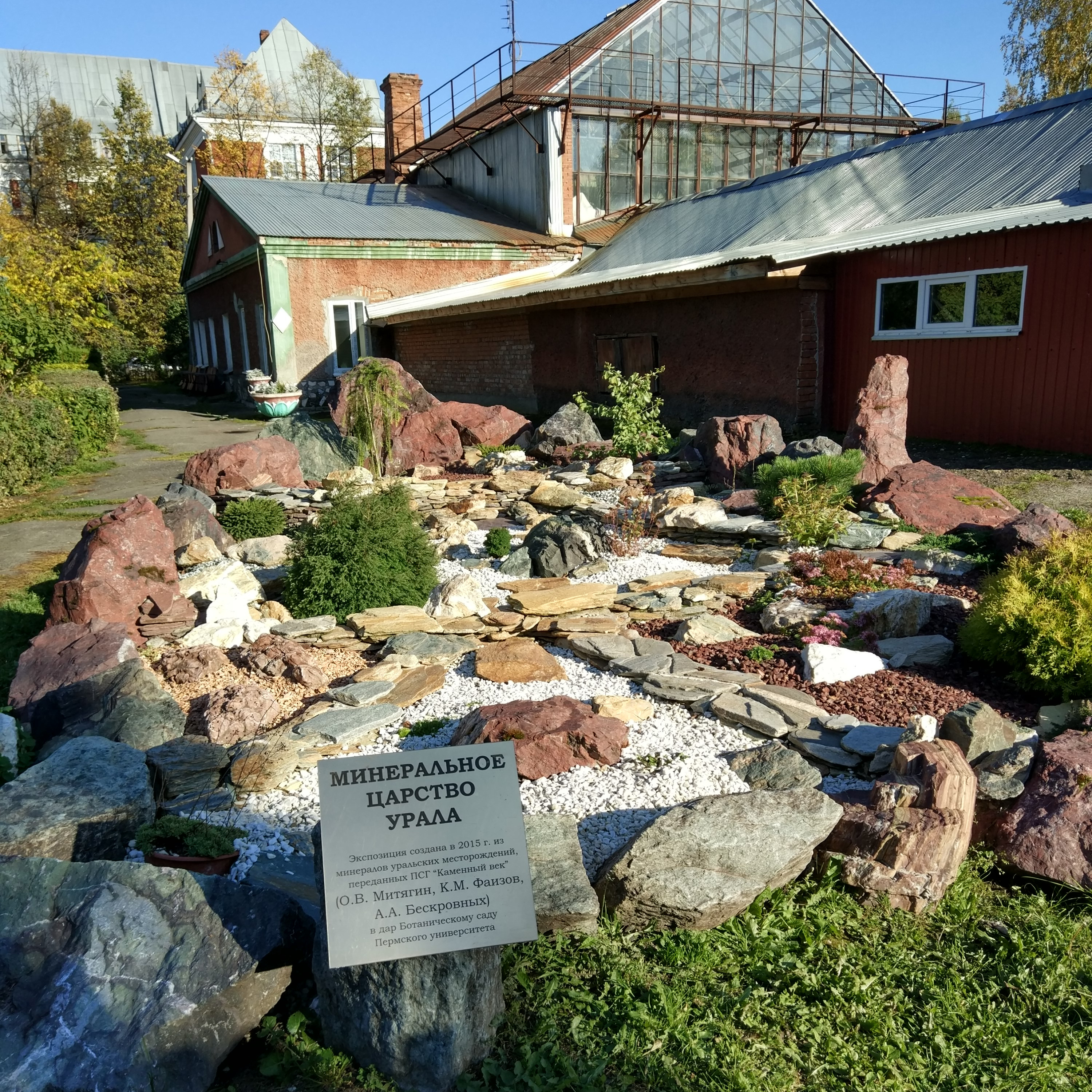 Urals Rock garden in Botanic garden, Perm university, Russia. At backside, young ginkgo biloba fossil tree, Permian flora.